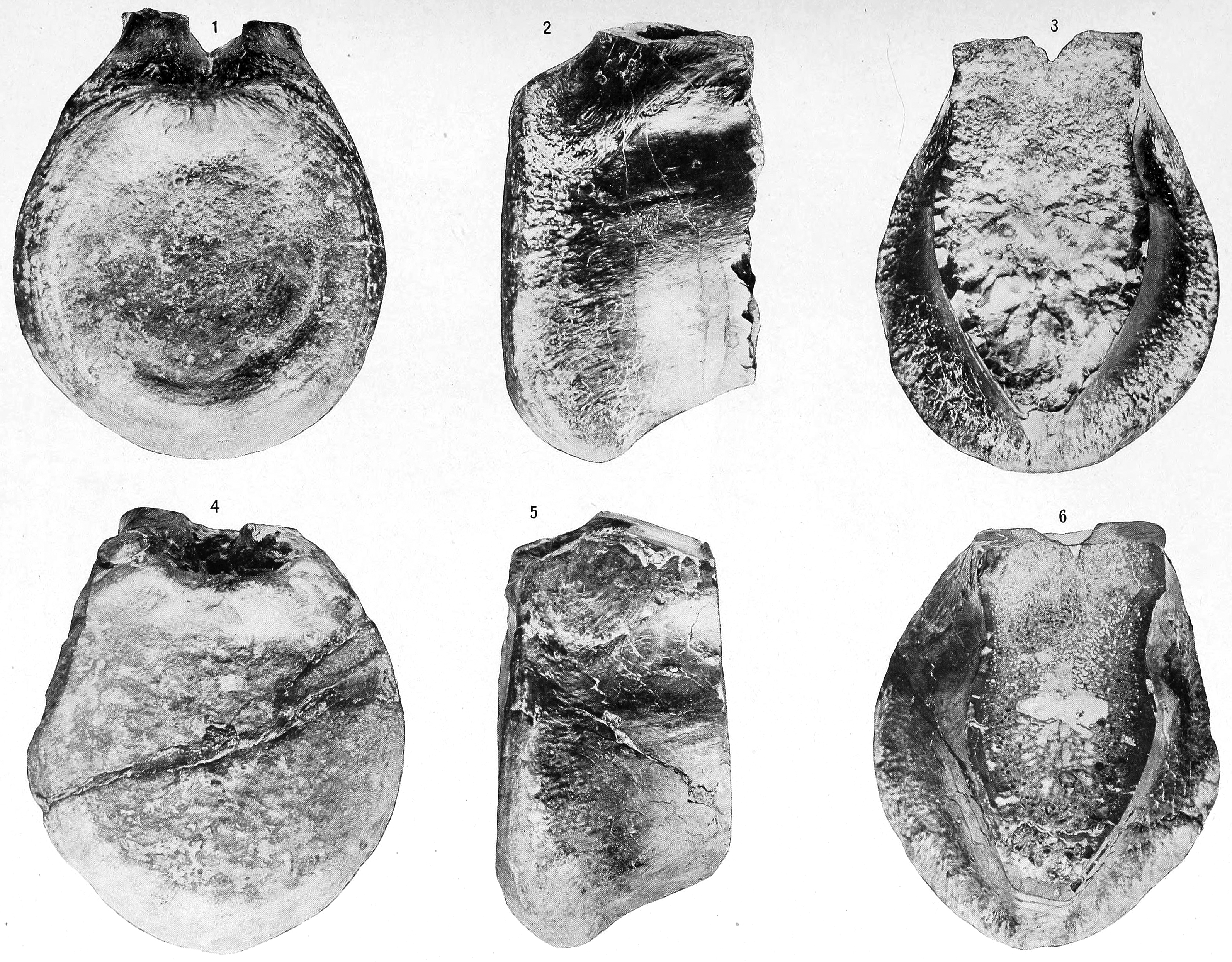 Antrodemus valens holotype tail vertebra, 1, 2, and 3 compared with the same of Allosaurus (4, 5, 6).